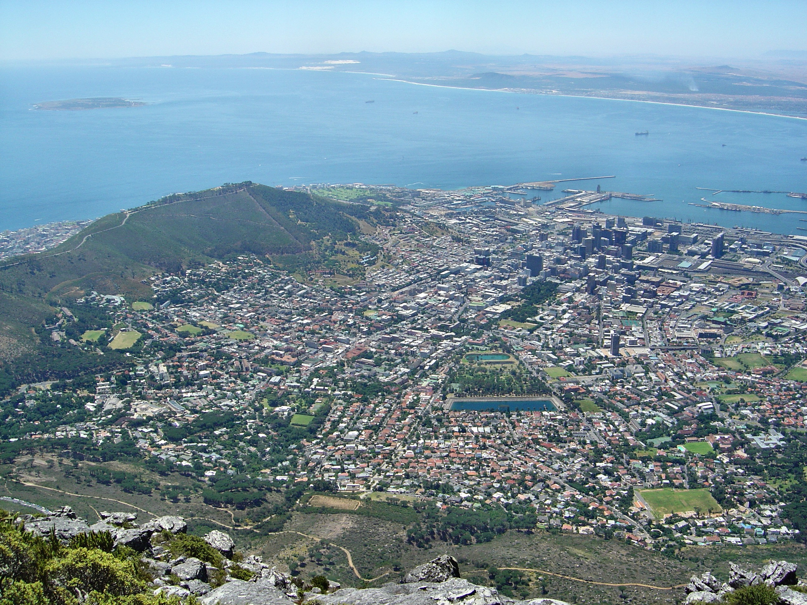 The central area of Cape Town and the Waterfront Harbour as seen from Table Mountain. The Island on the left is Robben Island where Nelson Mandela was kept imprisoned for so many years.